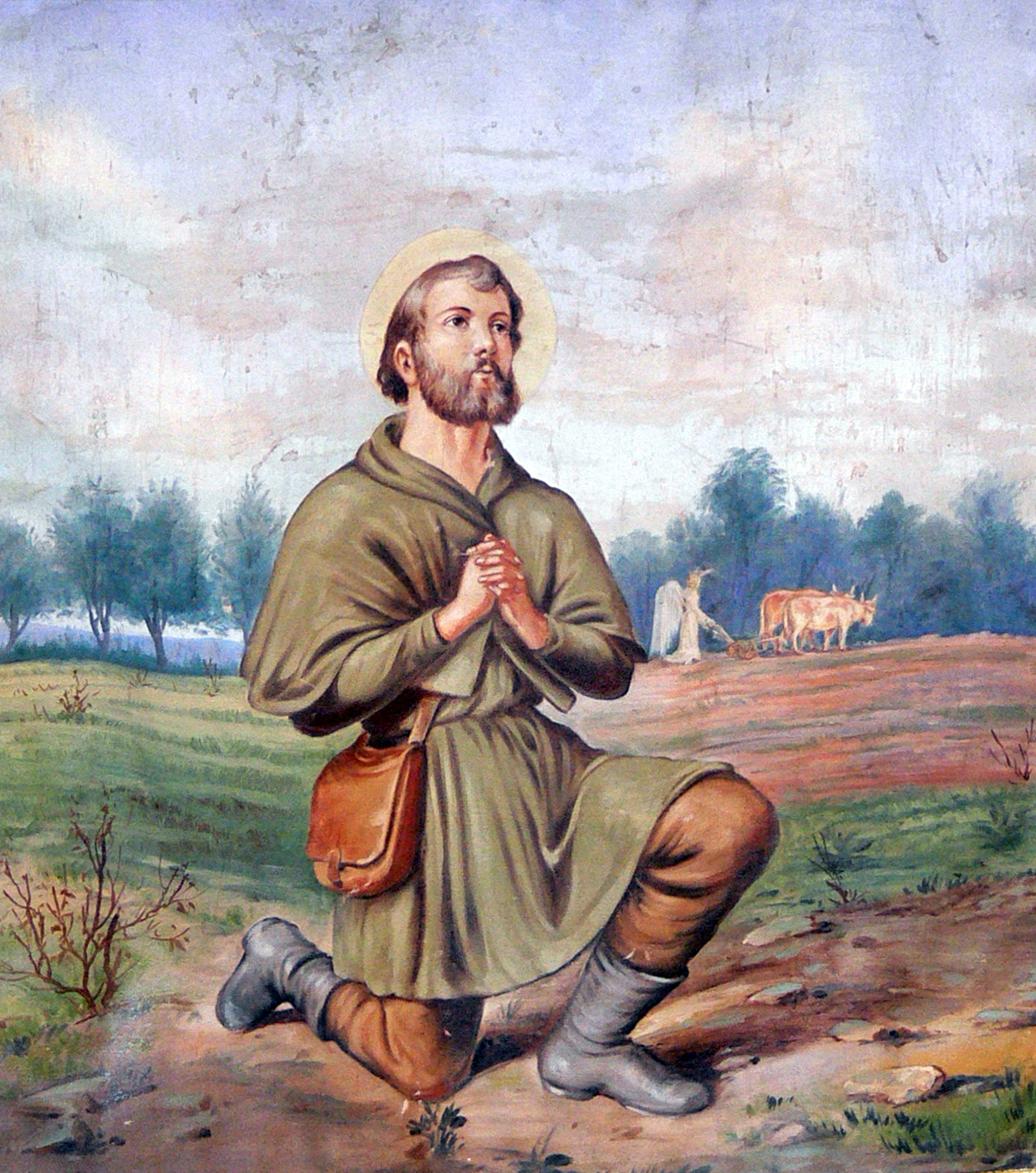 Hüttau ( Salzburg / Austria ). Parish church: Saint Isidore the Labourer on a ceremonial standard.